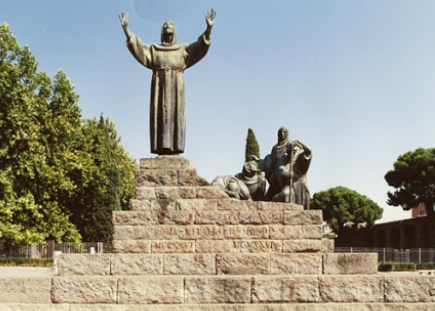 Statue of San Francesco in Rome on a sunny day